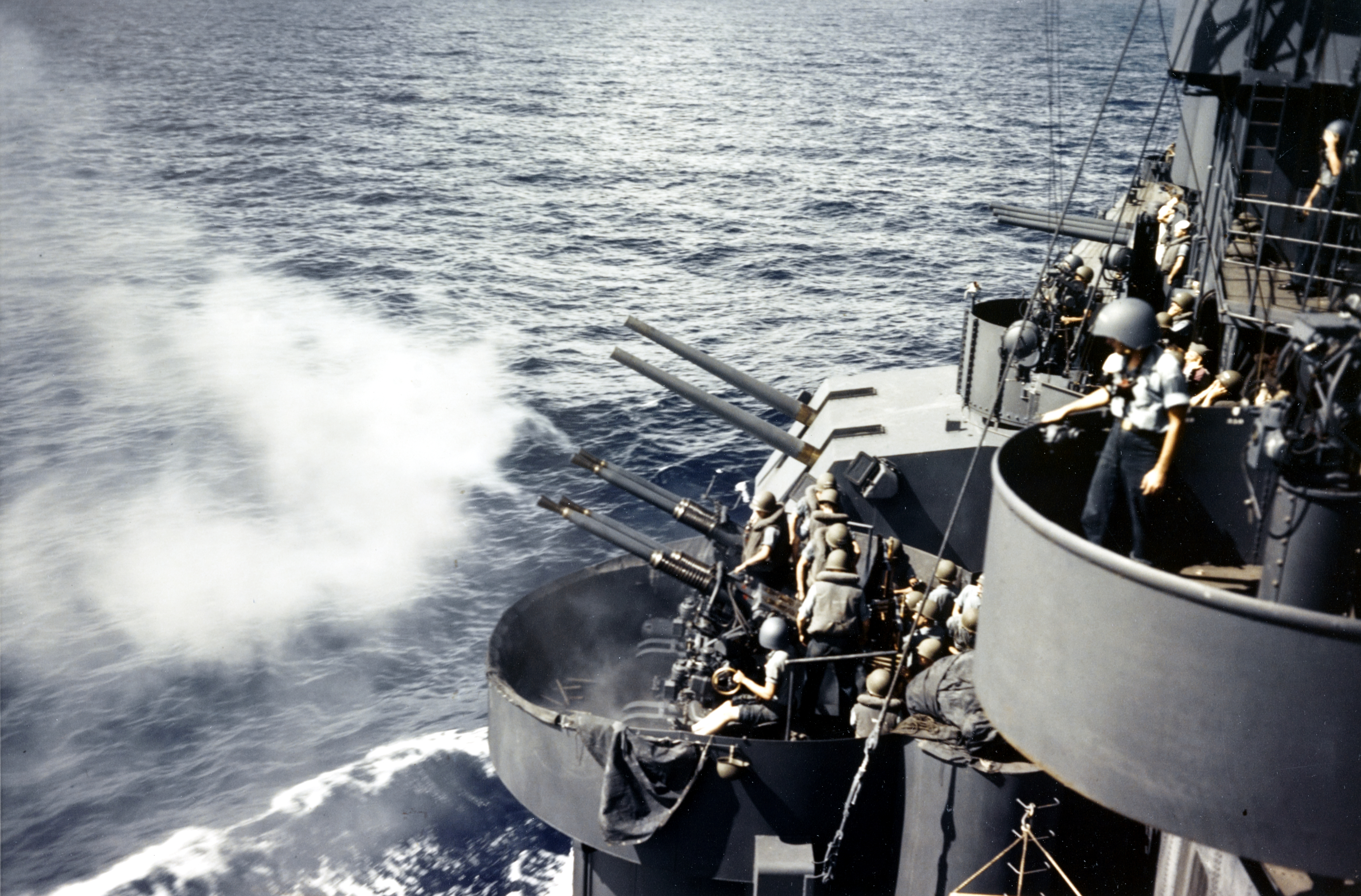 40 mm quad-mounted guns firing during battle practice aboard the U.S. Navy light cruiser USS Biloxi (CL-80) while the ship was shaking down in October 1943. The view looks forward along the ship's port side, with a 5"/38 twin gun mount beyond the 40 mm guns.